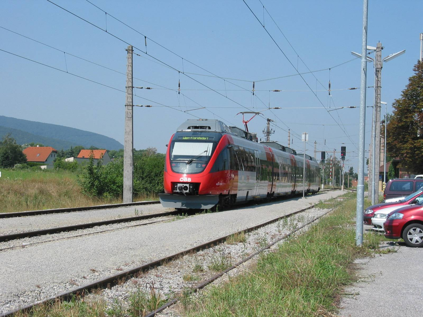 de: Station Wolfsthal en: Station Wolfsthal